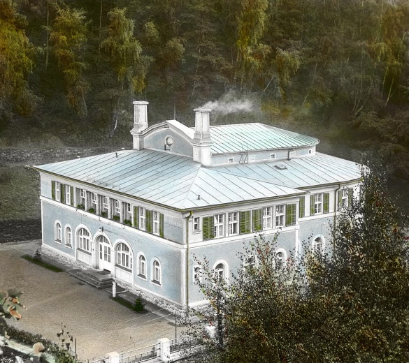 Spa in Jáchymov on the beginning of 20th century Author: Šechtl and Voseček, hand colored slide